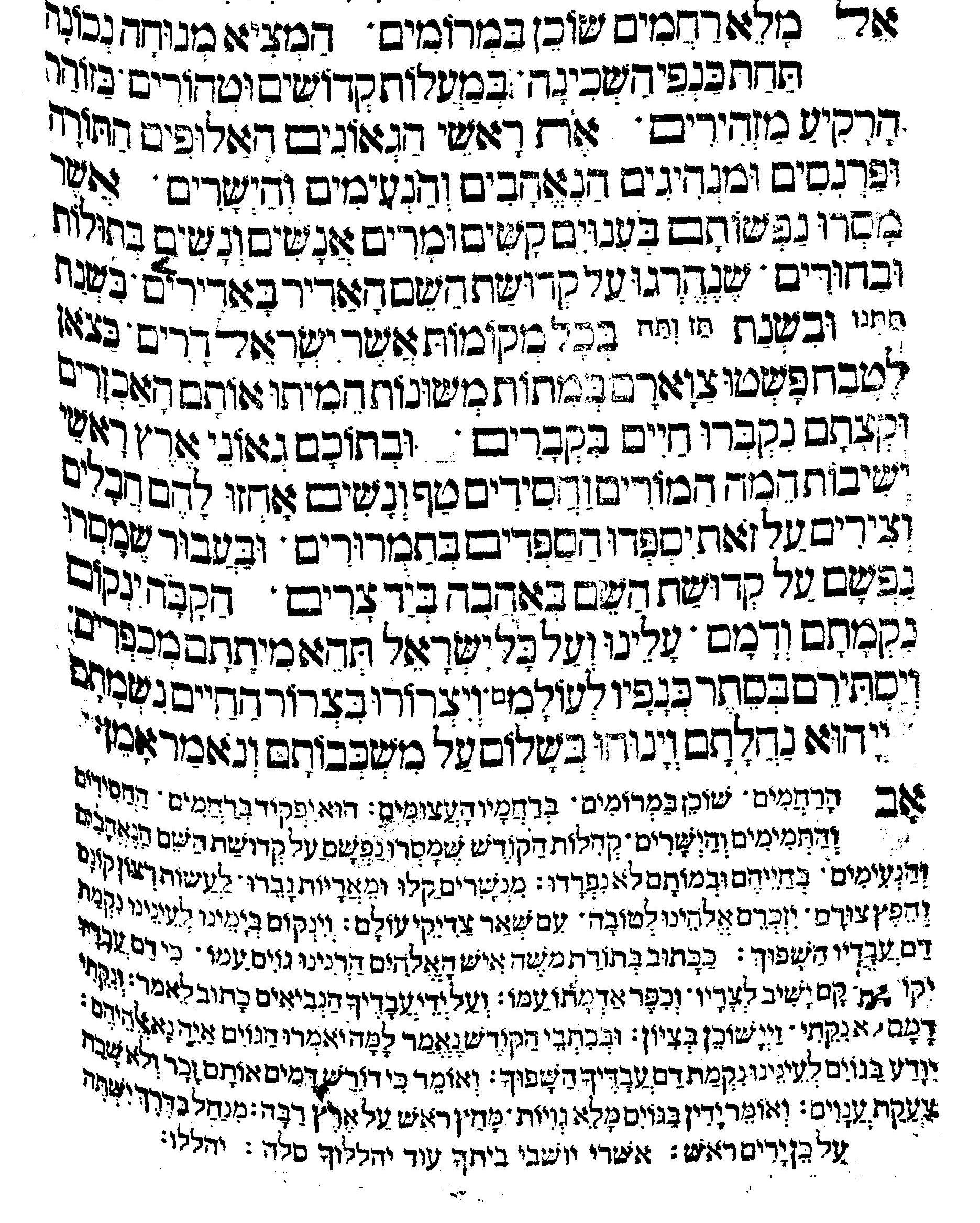 Prayer for those killed in the First Crusade 1096 and those killed in Khmelnytsky Uprising 1648-1649 from